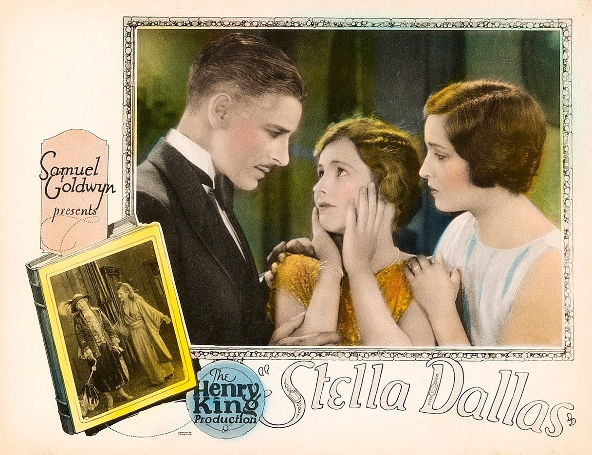 Lobby card for the 1925 film Stella Dallas. There are no copyright marks. At bottom is Country of origin USA.